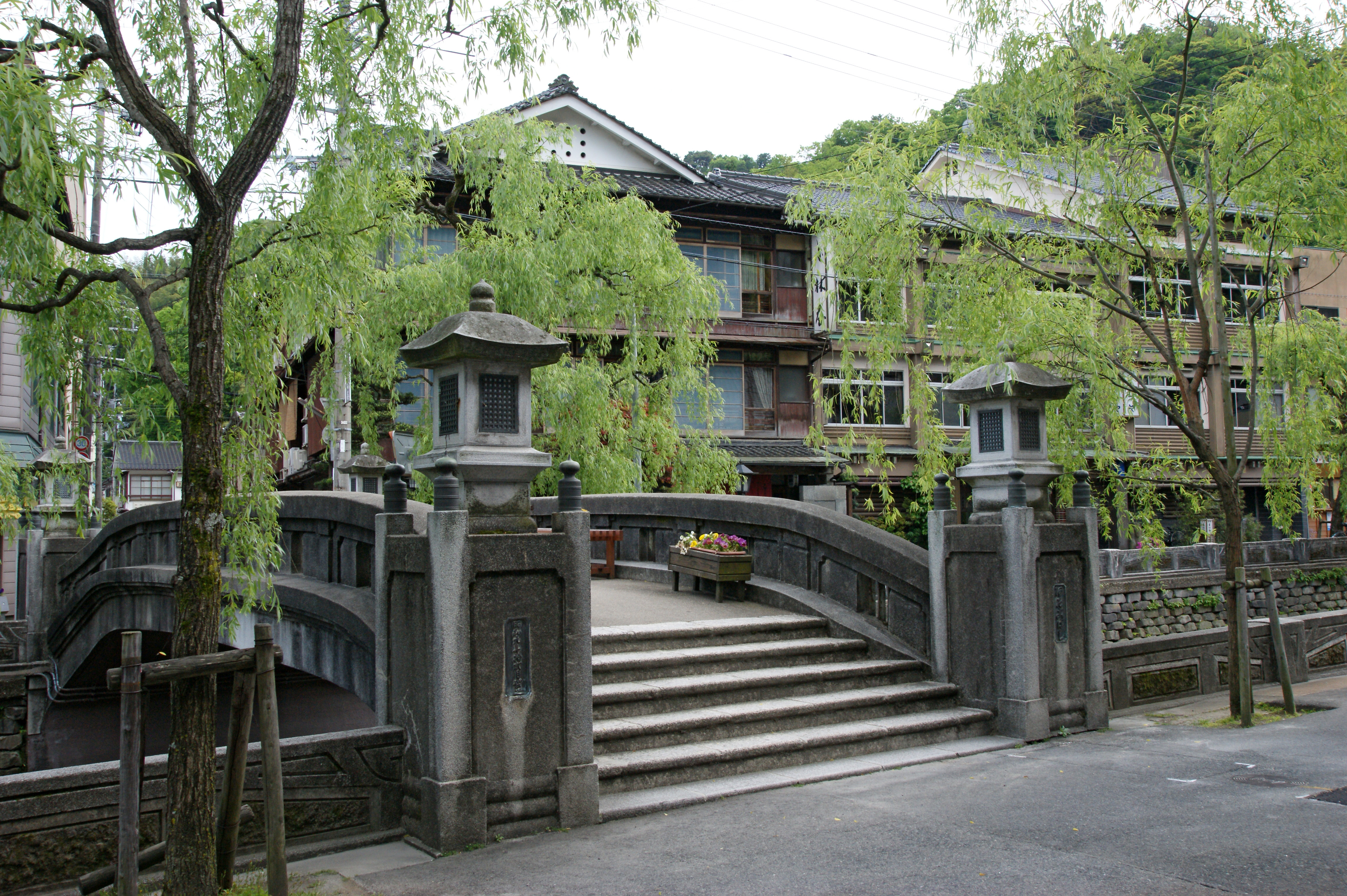 Kinosaki Onsen in Toyooka, Hyogo prefecture, Japan